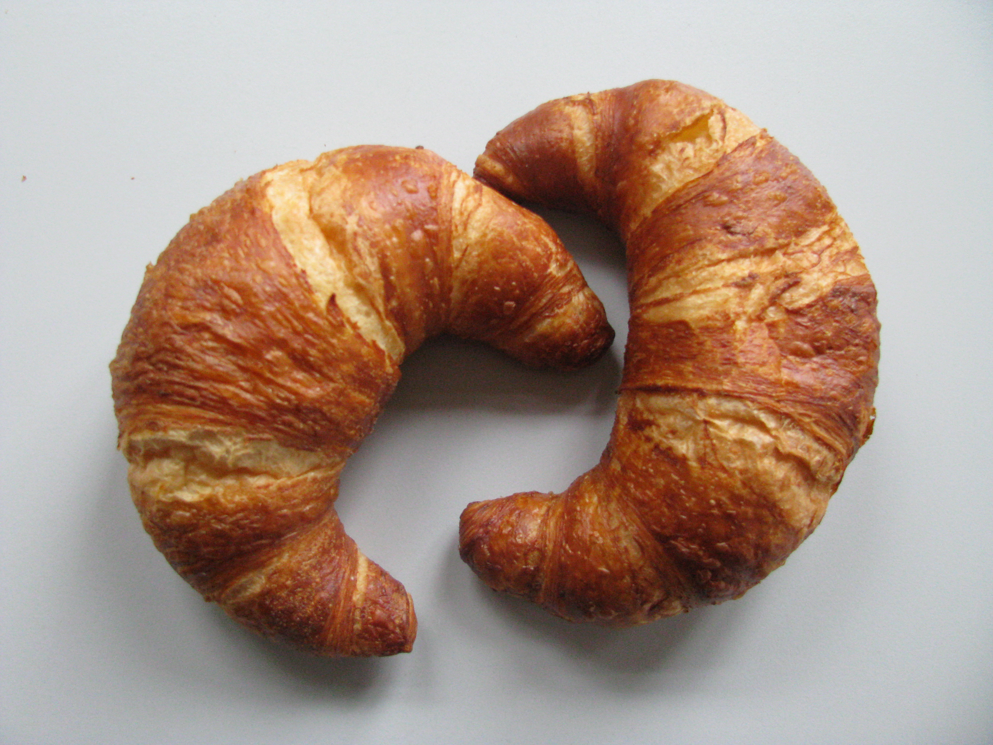 Lye croissants, popular variety of the French croissant in Southern Germany